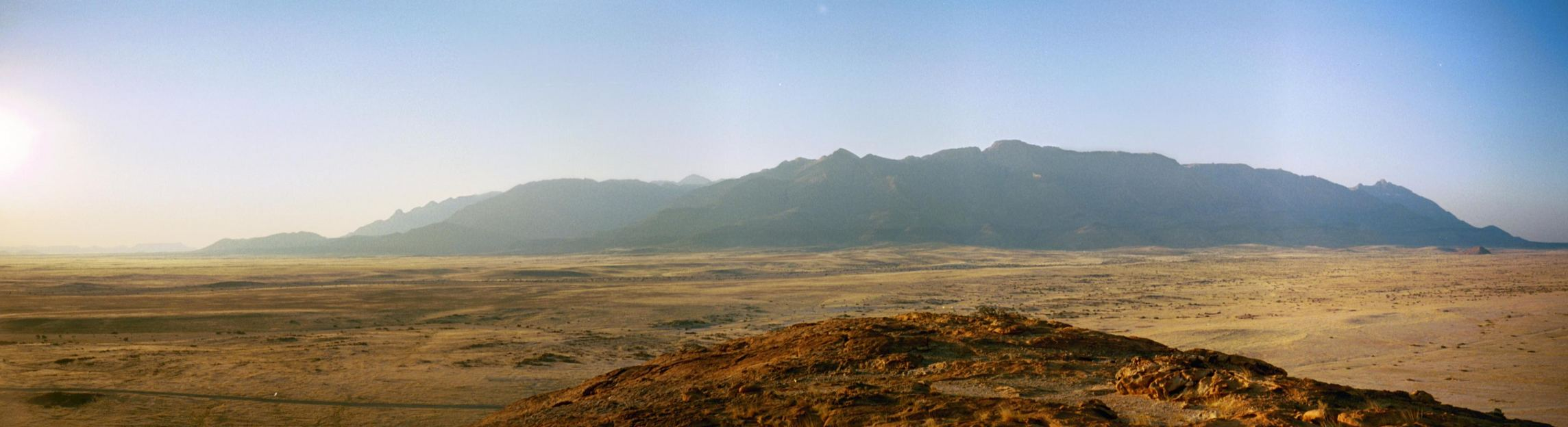 A view of the Brandberg Massifen from the South at sunset.